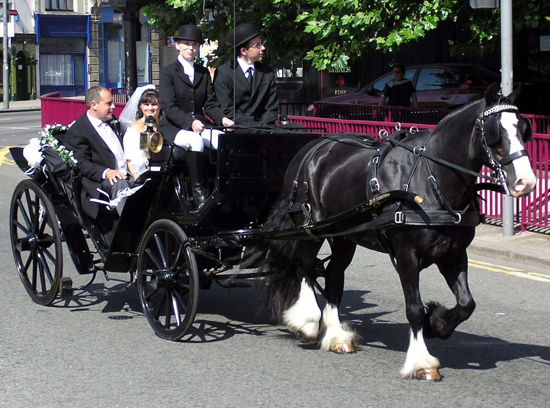 A wedding carriage in Old Market, Bristol, England, on a lovely summers day. Whether the couple are going to or coming from their wedding I do not know. Photographed by Adrian Pingstone on 16th July 2005 and released to the public domain.